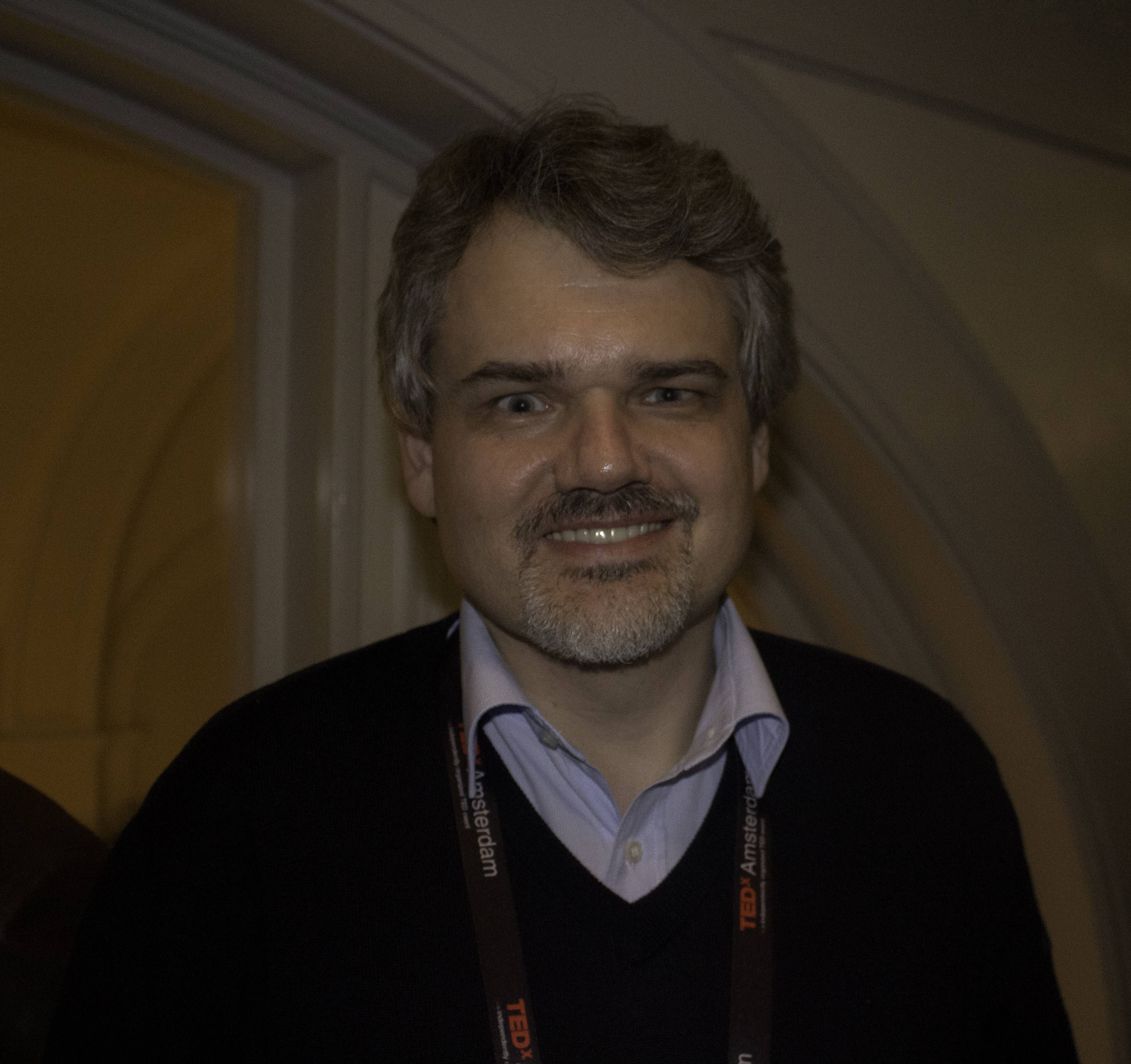 Rainer Goebel at TEDxAmsterdam 2014